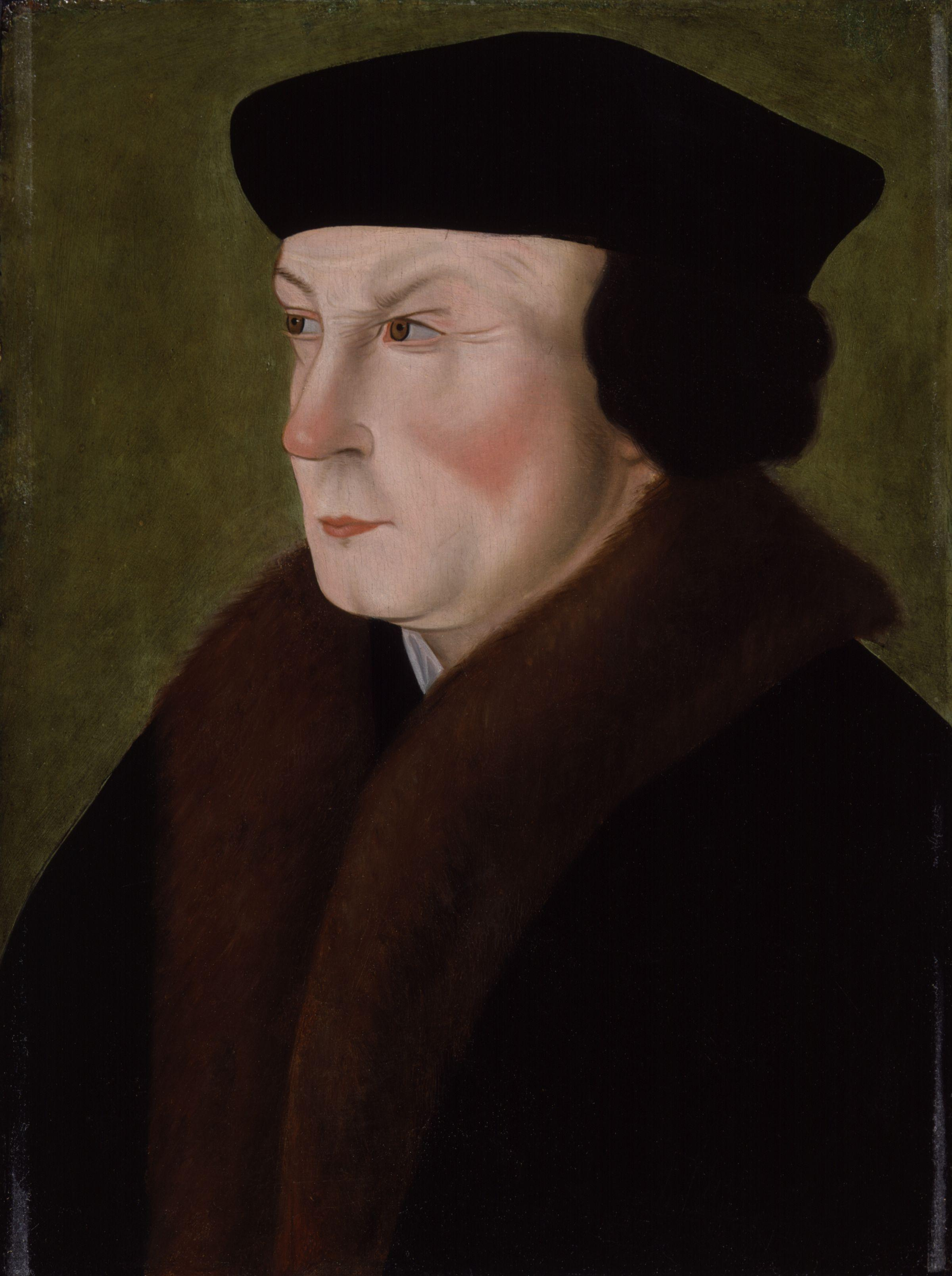 Thomas Cromwell, Earl of Essex, after Hans Holbein the Younger. All images in this batch have a known author, but have manually examined for strong evidence that the author was dead before 1939, such as approximate death dates, birth dates, floruit dates, and publication dates.